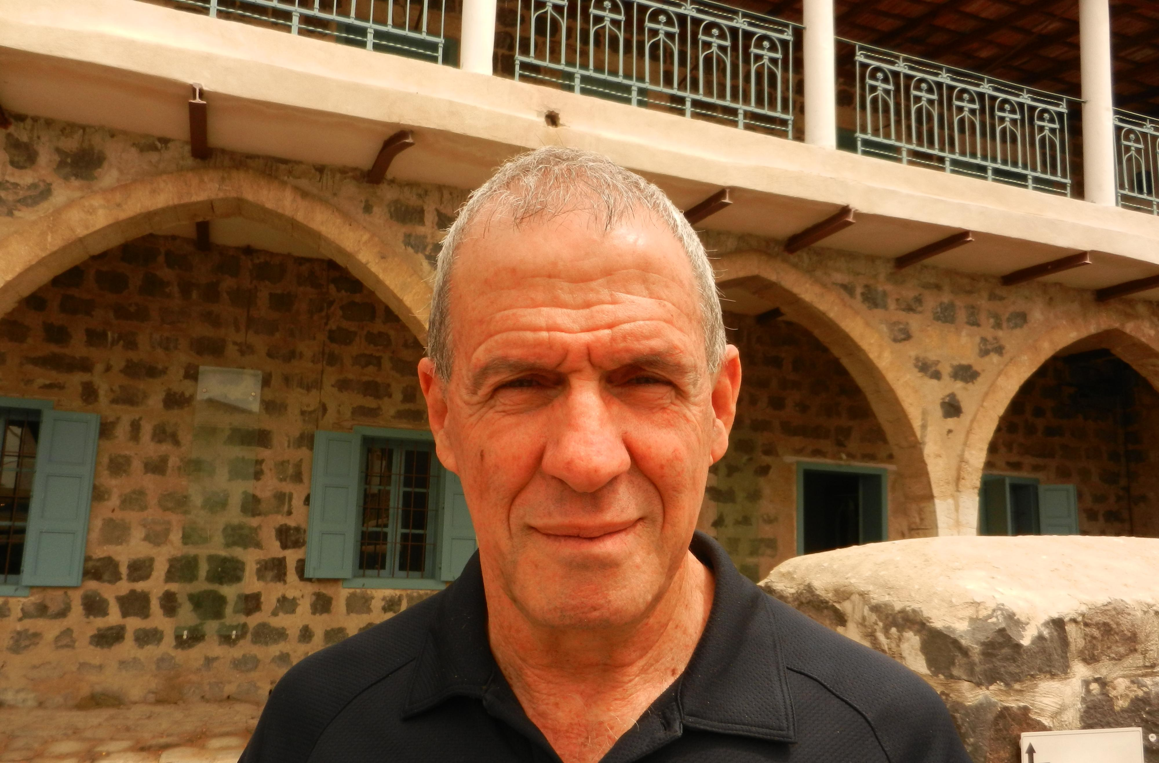 יורם אורנשטיין-תמונה